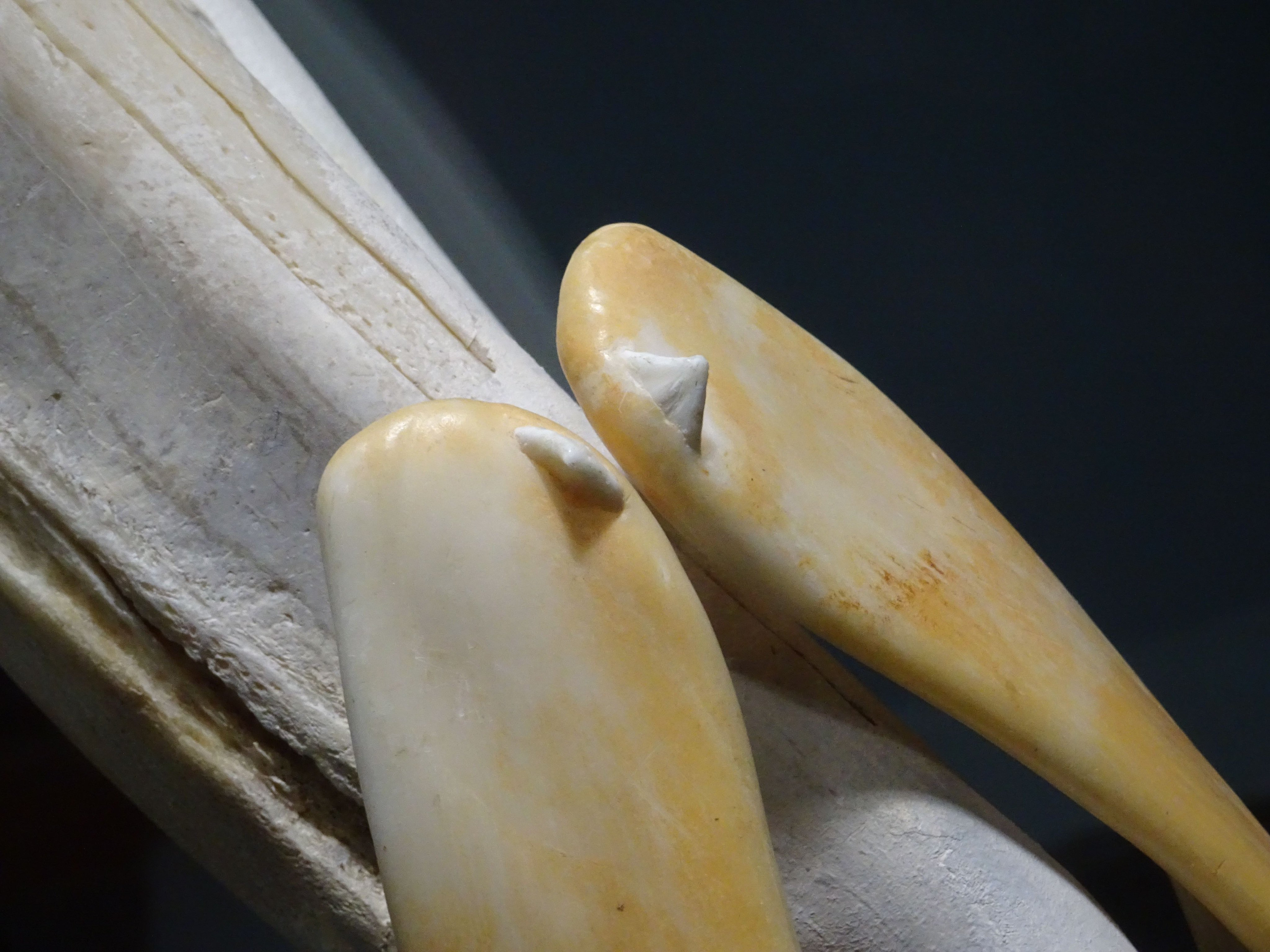 Detail of male STBW tusk